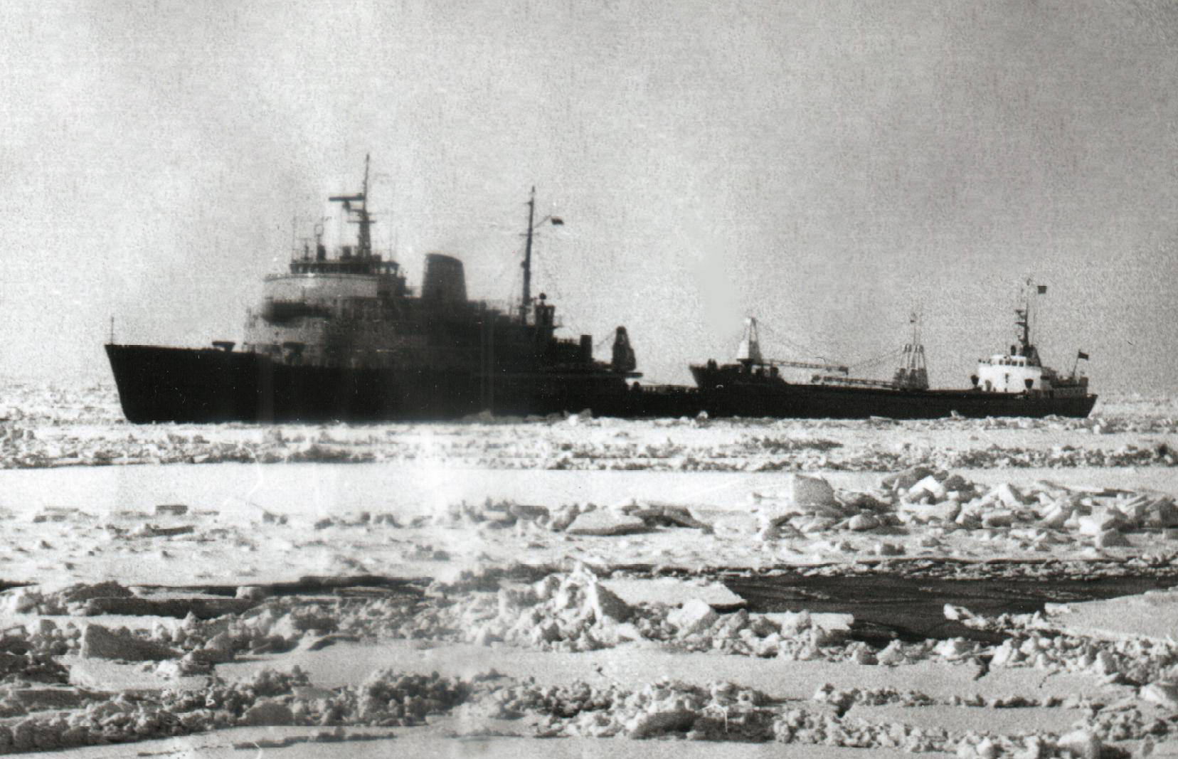 Icebreaker Tor with small freighter in tow. Kvarken April 1970